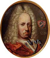 Johann Gottfried Rösner (1658-1724), victim of Thorn Blood tribunal